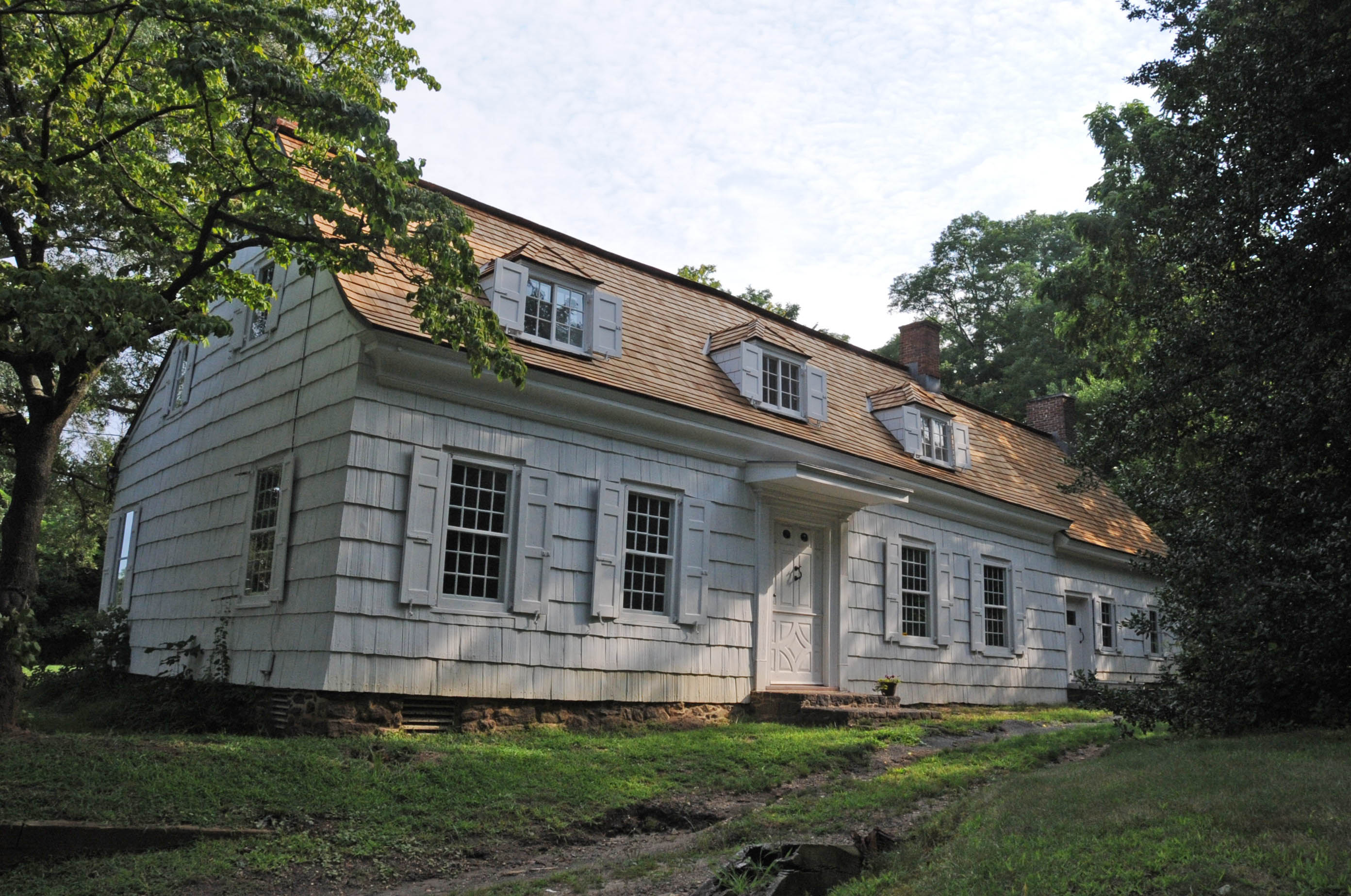 CIRCA 1756 HOME OF EDWARD TAYLOR, A PROSPEROUS LANDOWNER AND MERCHANT. HE WAS AN ARDENT LOYALIST AND THE TAYLOR’S LOST MOST OF THEIR WEALTH BUT RETAINED THE FARM.